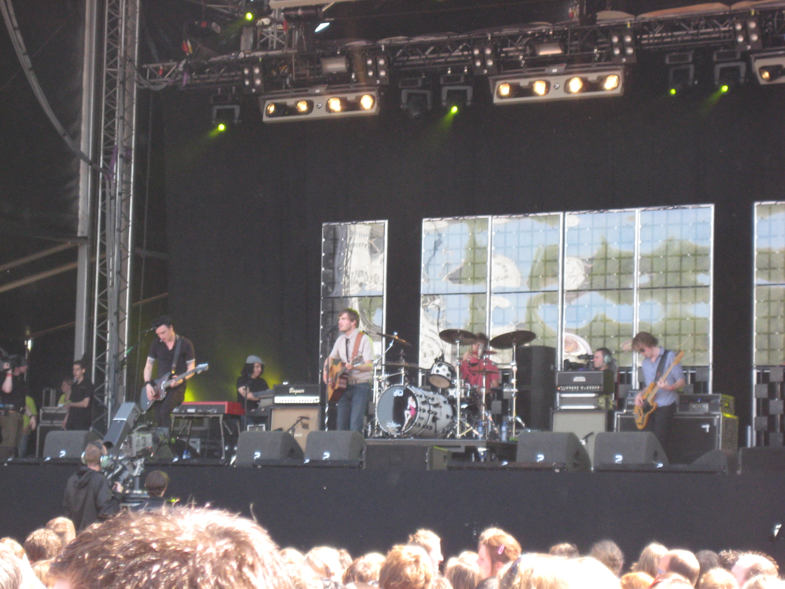 Di-rect performing at thebevrijdingsfestival in Zwolle (Netherlands), 2008